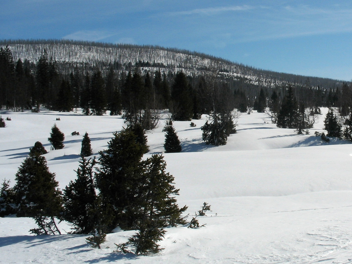 Mountain Velká Mokrůvka in Šumava Mts. from Březník (Czech Republic)